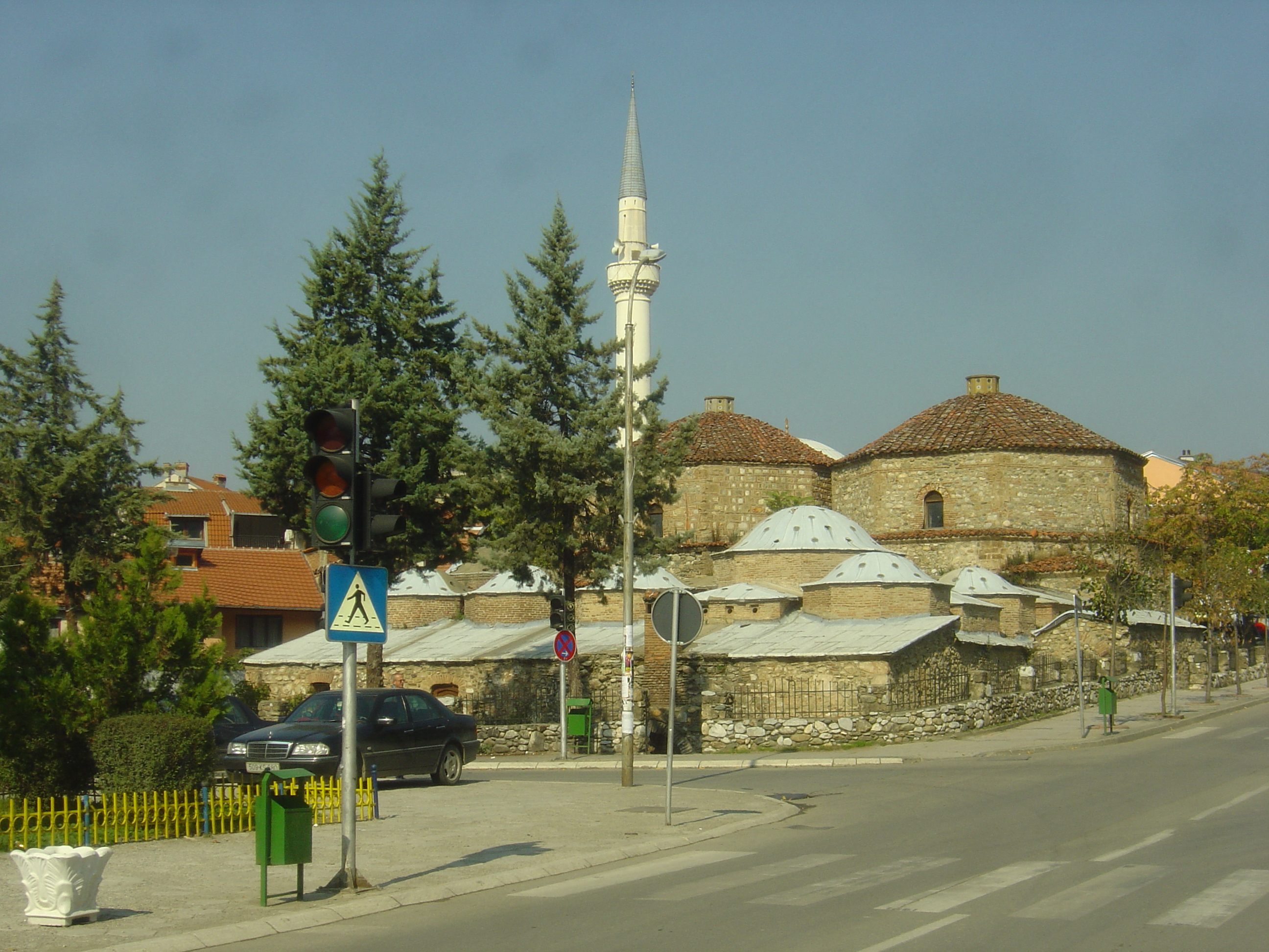 Ottoman Hamam in Prizren